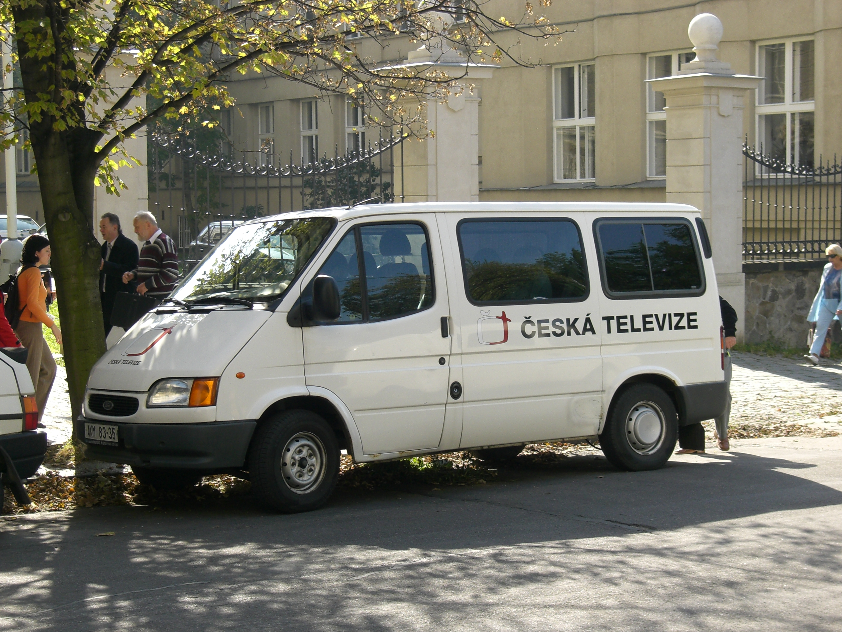 Car of Česká televize in Albertov, Prague, Czech Republic